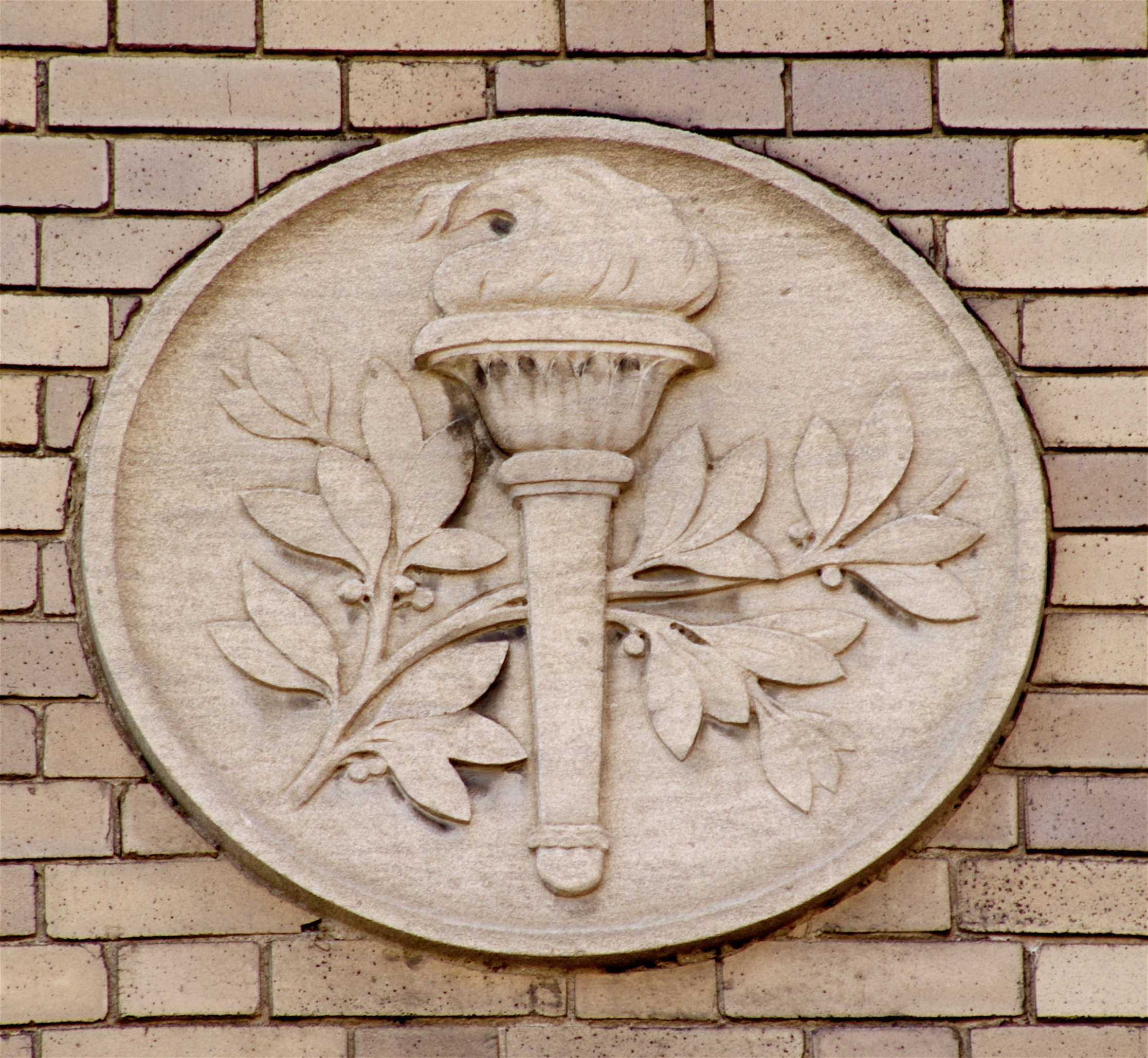 A reflief of torch on the Mechanics' Institute building in Montreal, Quebec, Canada. The building is the home of the first Mechanics' Institute in Canada (established 1828), and the oldest subscription library in Canada; it is the last Mechanics' Institute building in Canada serving its original purposes.